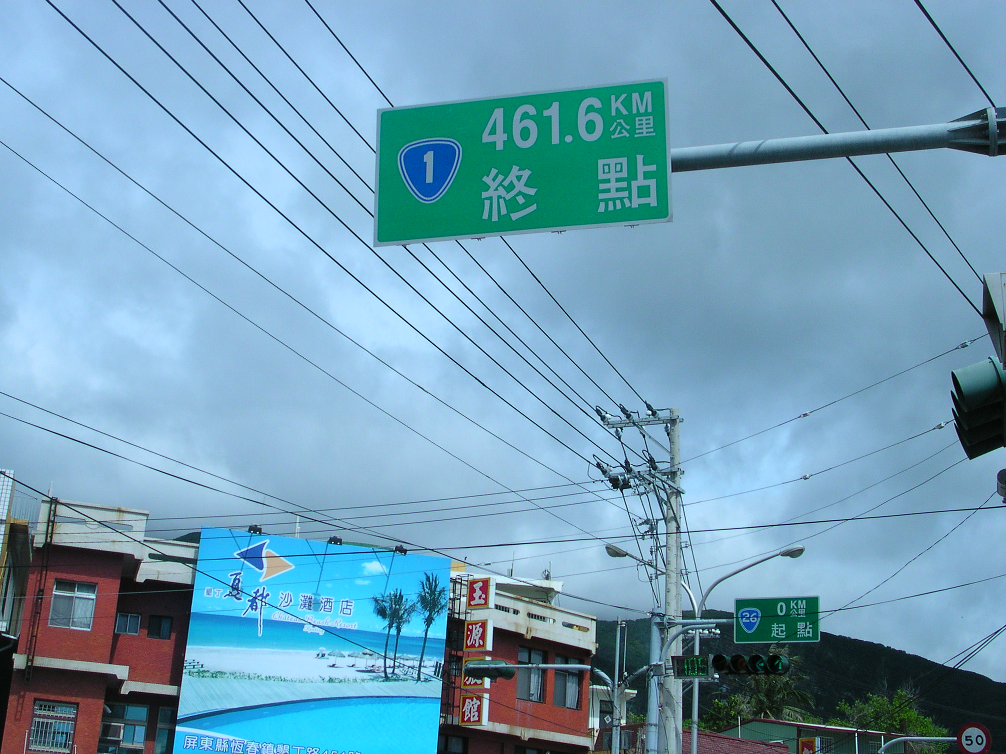 End of Taiwan Provincial Way No.1 in Fonggang, Pingtung, Taiwan by koika.